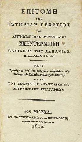 Book cover:History of Gjergj Kastrioti - Skënderbeu in Greek language